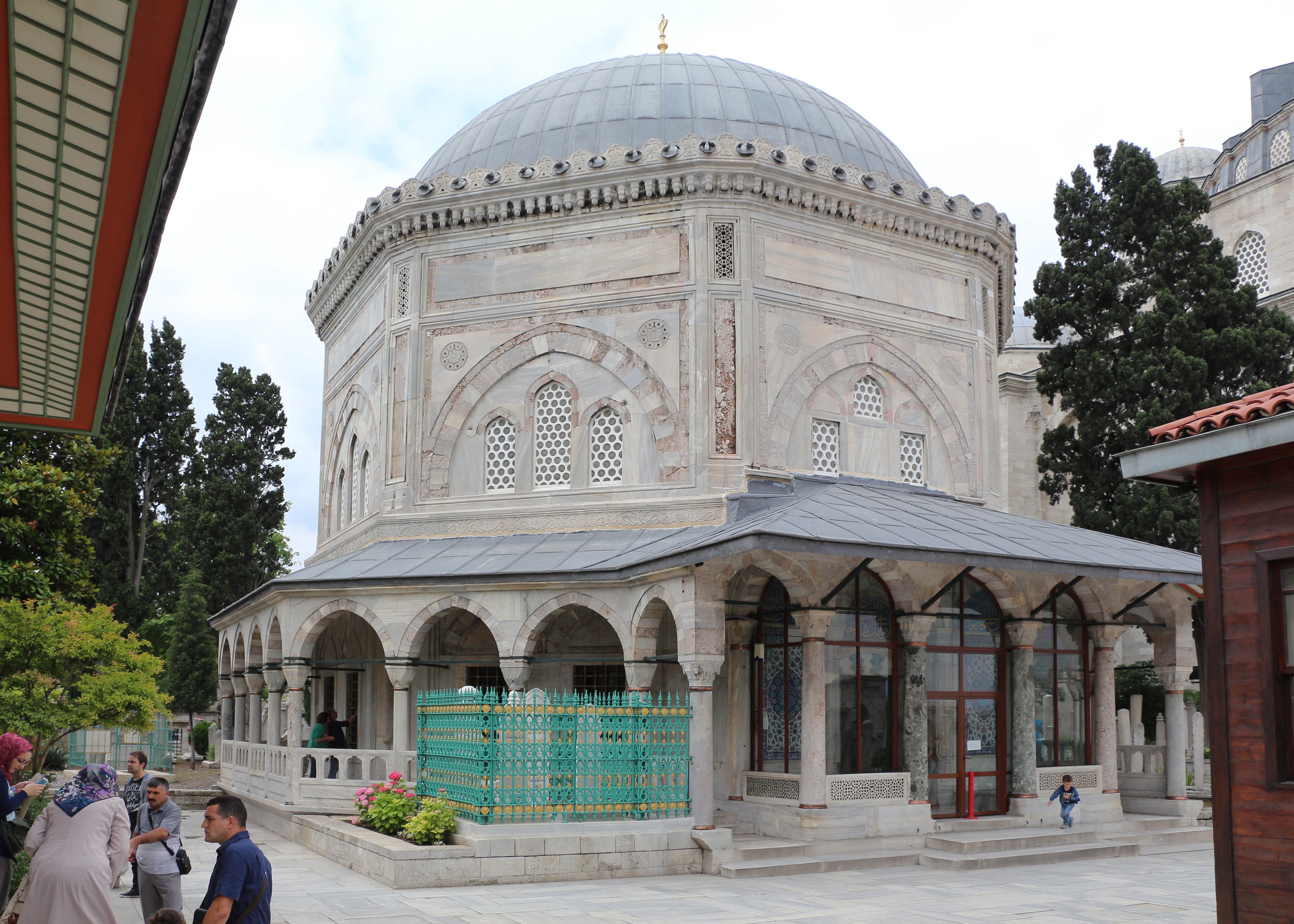 Sultan Süleyman Türbesi near Süleymaniye Mosque, Istanbul